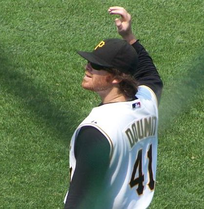 Ryan Doumit 19:42, 4 September 2007 . . Xiheart4125x . . 418×428 (44 KB)